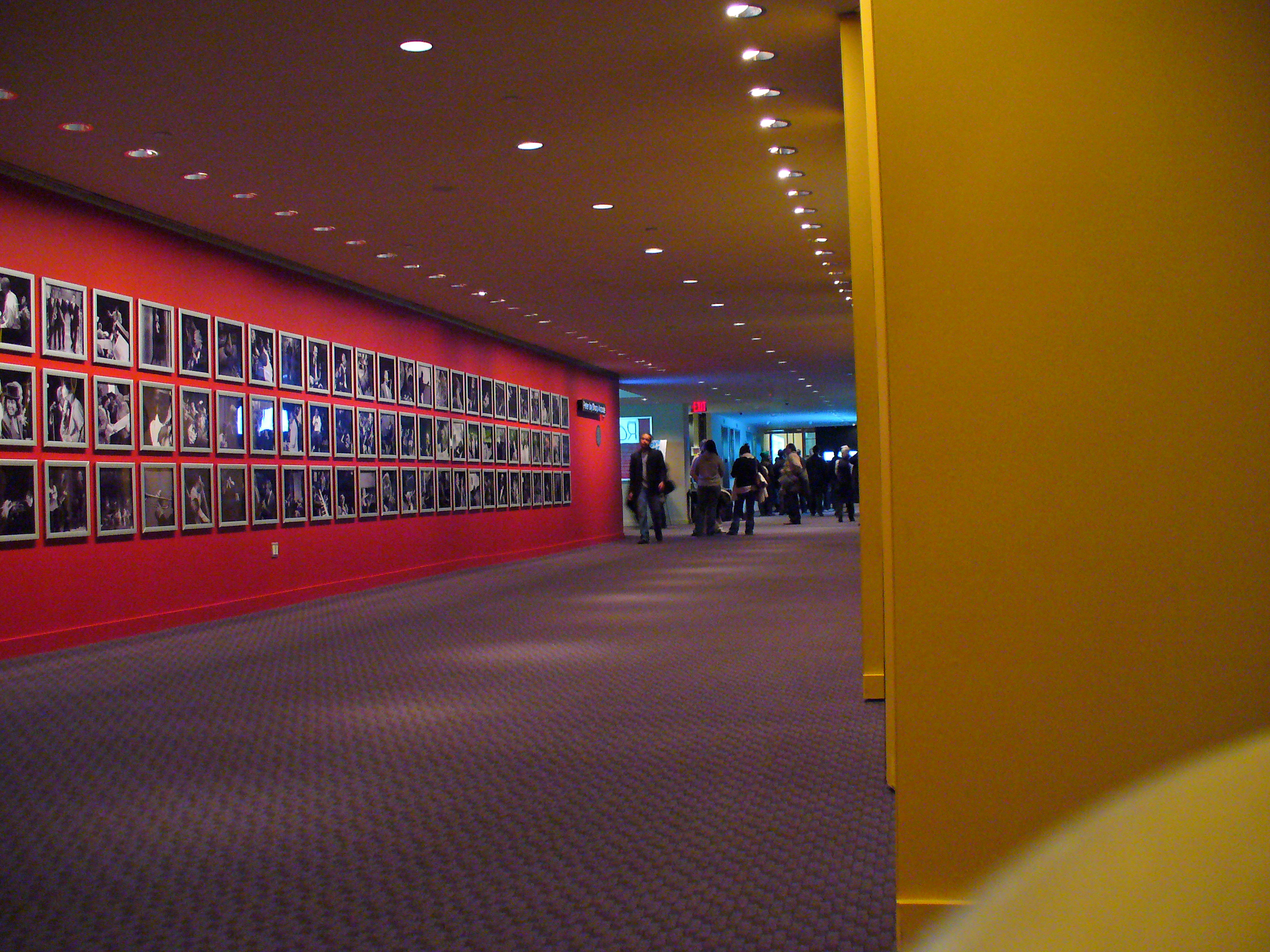 Jazz at Lincoln Center 2 by David Shankbone